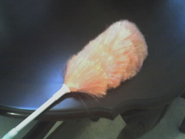 This is a feather duster, dusting a table.